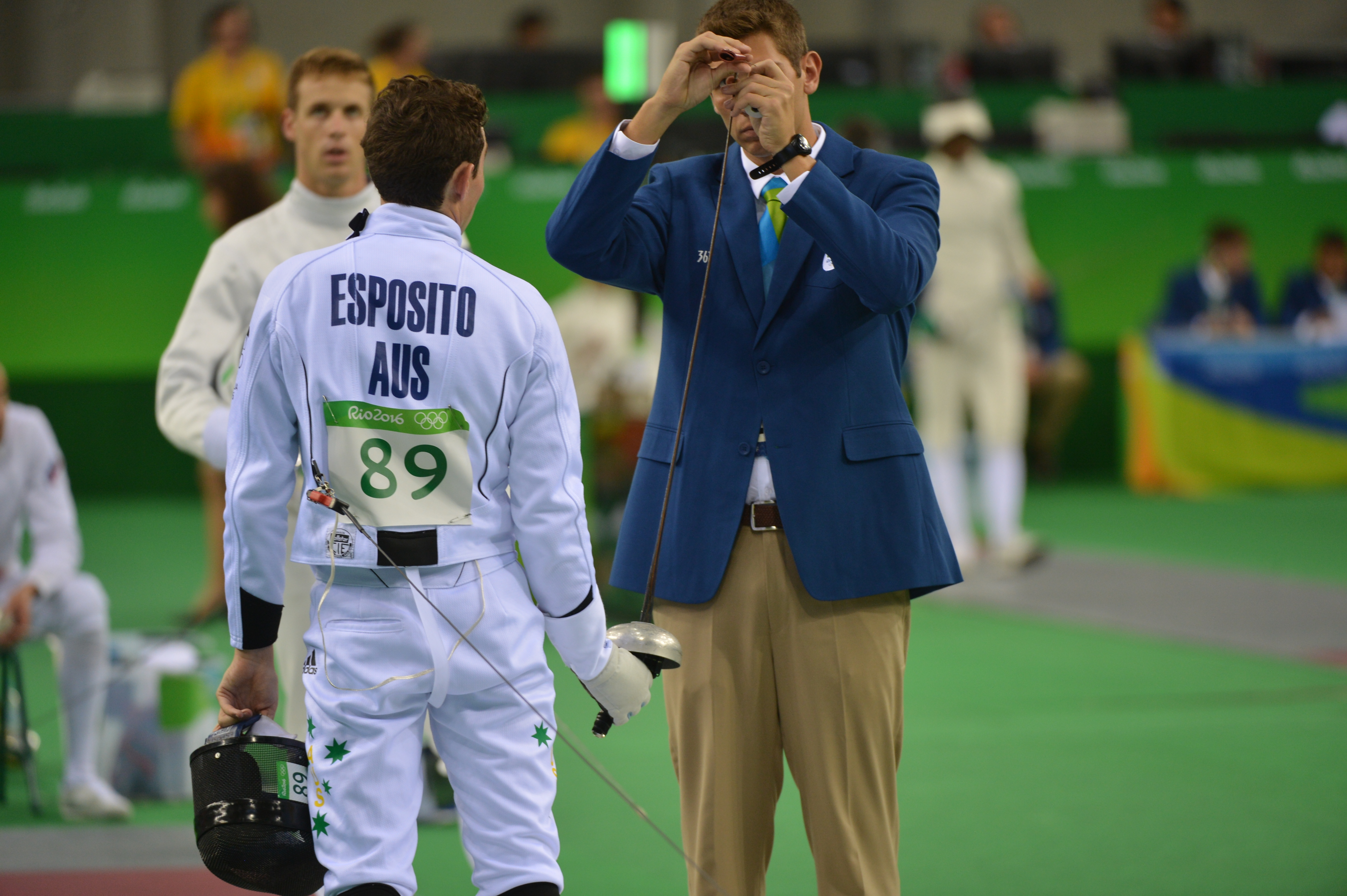 Sgt. Nathan Schrimsher of the U.S. Army World Class Athlete Program reacts to his victory over Ismael Marcelo Hernandez Uscanga of Mexico during the men's Modern Pentathlon fencing competition Aug. 18 at the Rio Olympic Games in Rio de Janeiro. Schrimsher posted 20 victories and 15 defeats to earn 220 Modern Pentathlon points in the first of four events. Alexander Lesun of Russia leads the 36-competitor field with an Olympic record 268 points in fencing (28 victories, 7 defeats). Competition resumes Saturday in swimming, equestrian show jumping, and the combined event of cross country running and pistol shooting. U.S. Army photo by Tim Hipps, IMCOM Public Affairs #SoldierOlympians #ArmyOlympians #ArmyTeam #TeamUSA #GoArmy #ArmyStrong #Olympics #RioGames #USAPentathlon